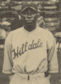 Rube Currie at the 1924 Colored World Series. LOC states here that there are no restrictions on use of this image, therefore it is PD. This file has been extracted from another file: 1924 Negro League World Series.jpg